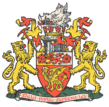 Coat of arms of the former Swinton and Pendlebury Municipal Borough Council. The blazon is as follows: ARMS: Gules a Cockatrice Or on a Chief per pale of the second and Argent a Lion passant guardant between two Roses of the first barbed and seeded proper. CREST: On a Coronet composed of six Roses Gules barbed and seeded proper set upon a Rim Or a Boar's Head erased Argent armed Azure. SUPPORTERS: On either side a Lion rampant Or holding in the interior paw a Pickaxe Gules. Motto: 'SALUS POPULI SUPREMA LEX' - The welfare of the people is the highest law. Granted by the College of Arms on 1 October 1934